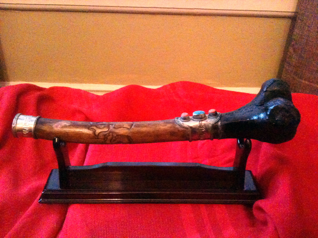 Tibetan "kangling" trumpet made from human thigh bone